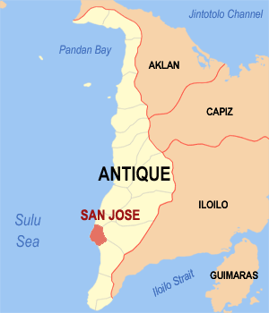 Map of Antique showing the location of San Jose